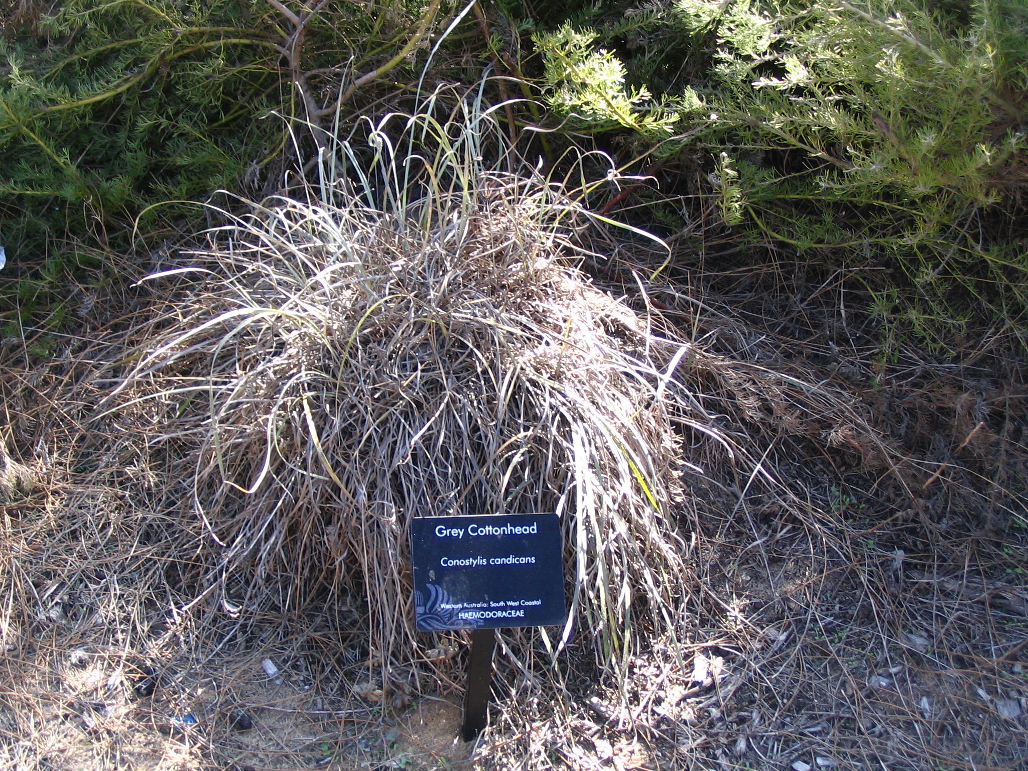 Grey Cottonhead (Conostylis candicans) in Kings Park, Perth, Australia.